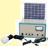 Portable solar light system